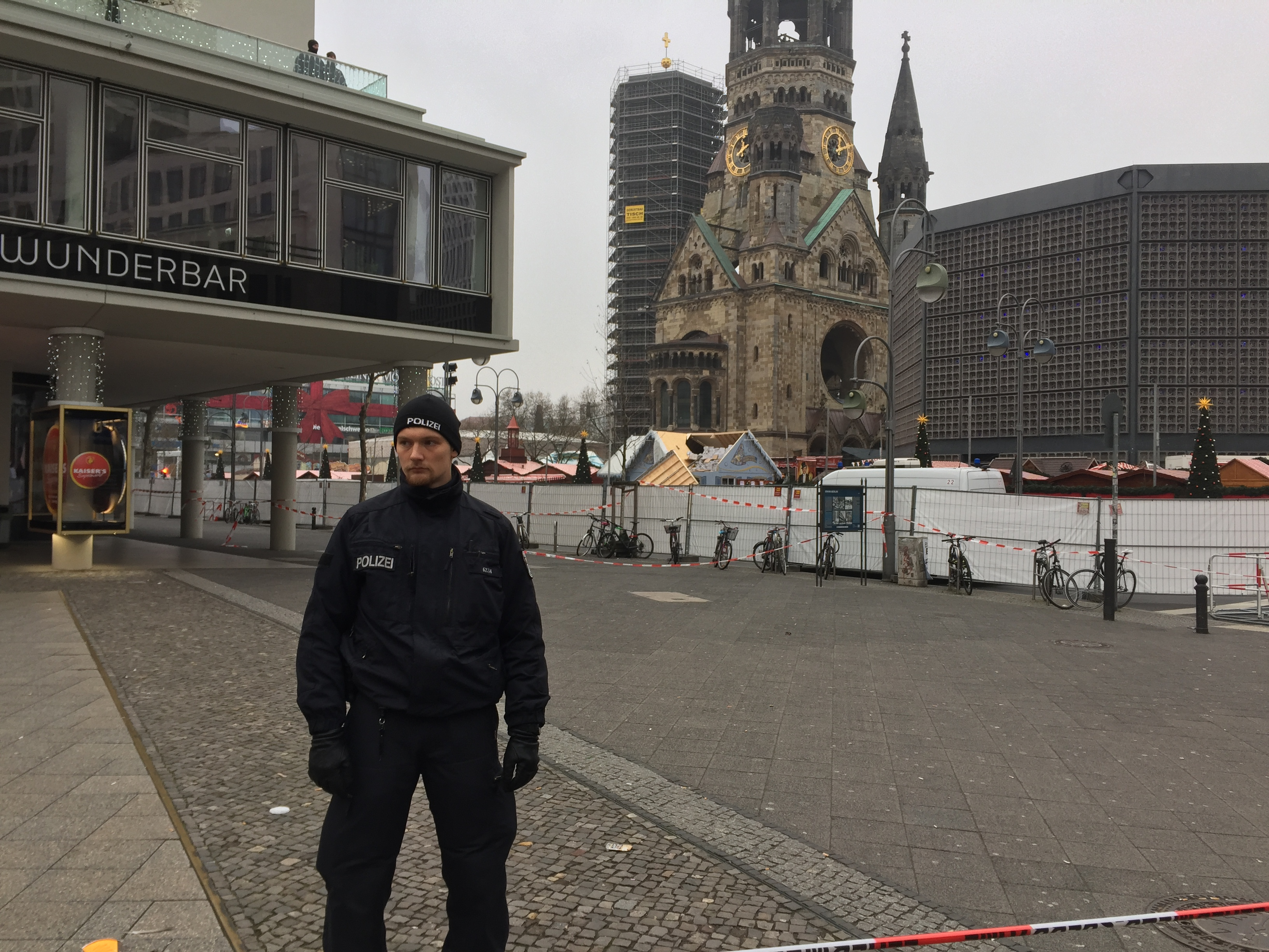 2016 Berlin Christmas market truck attack - Police guard